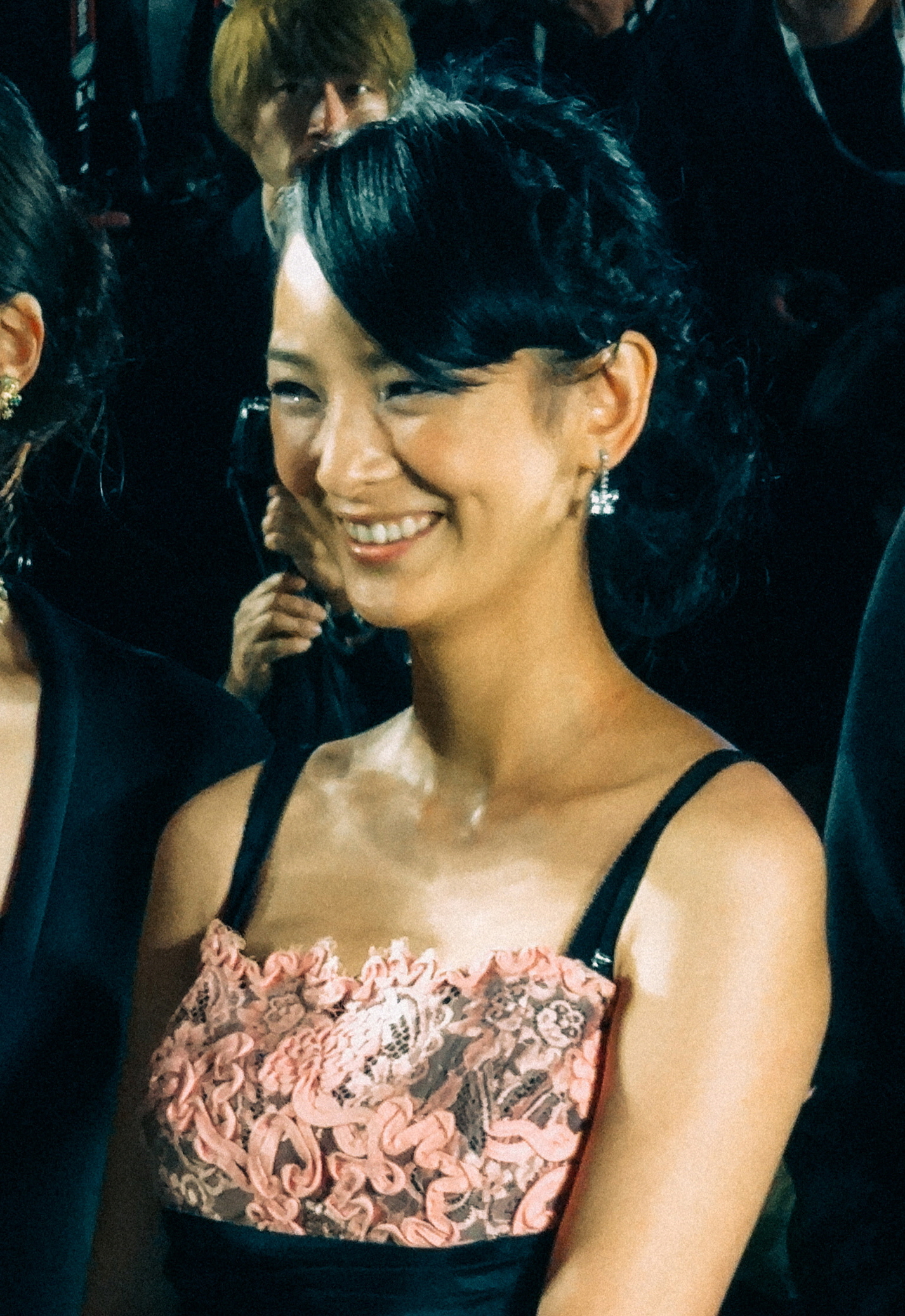 26th Tokyo International Film Festival: Hitomi Miwa from Disregarded People